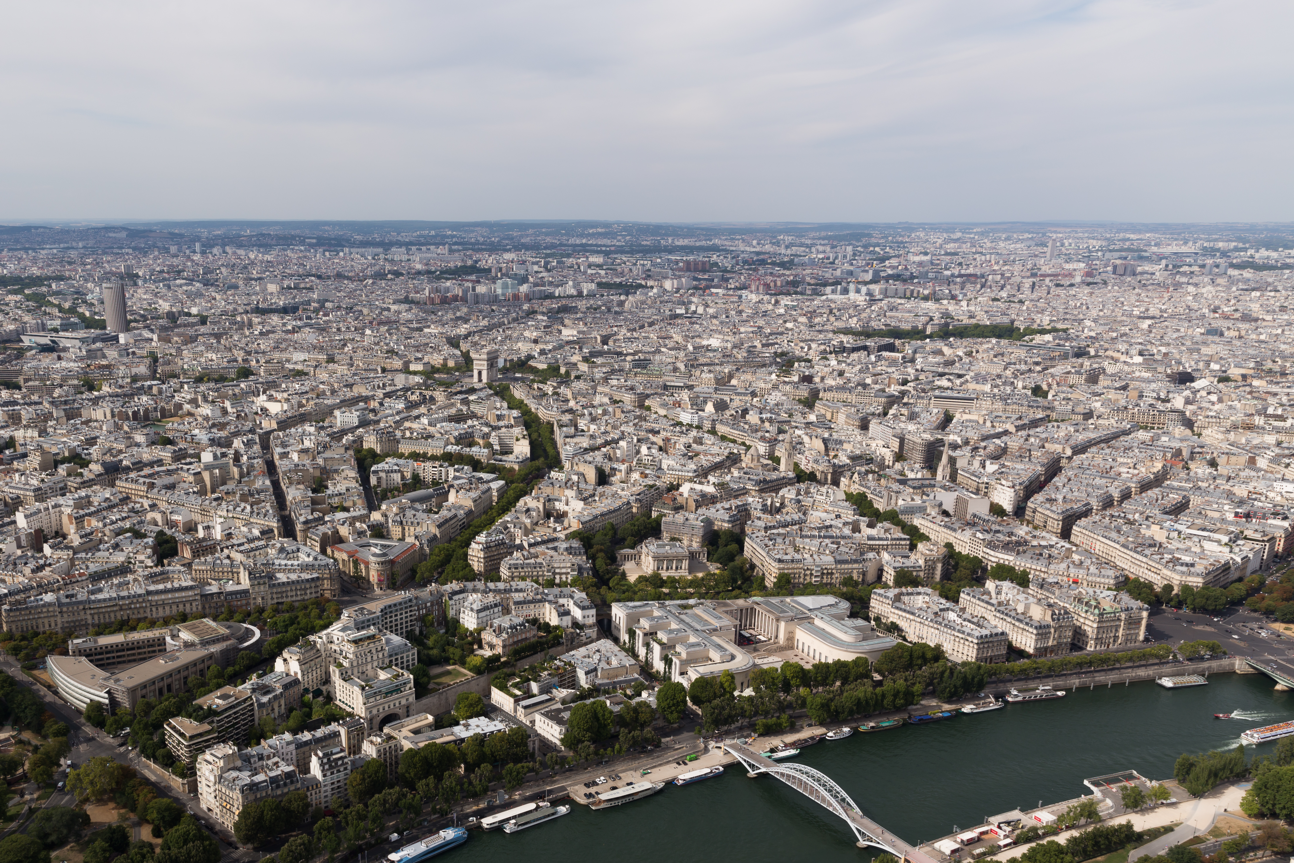 North view of Paris from the Eiffel Tower.